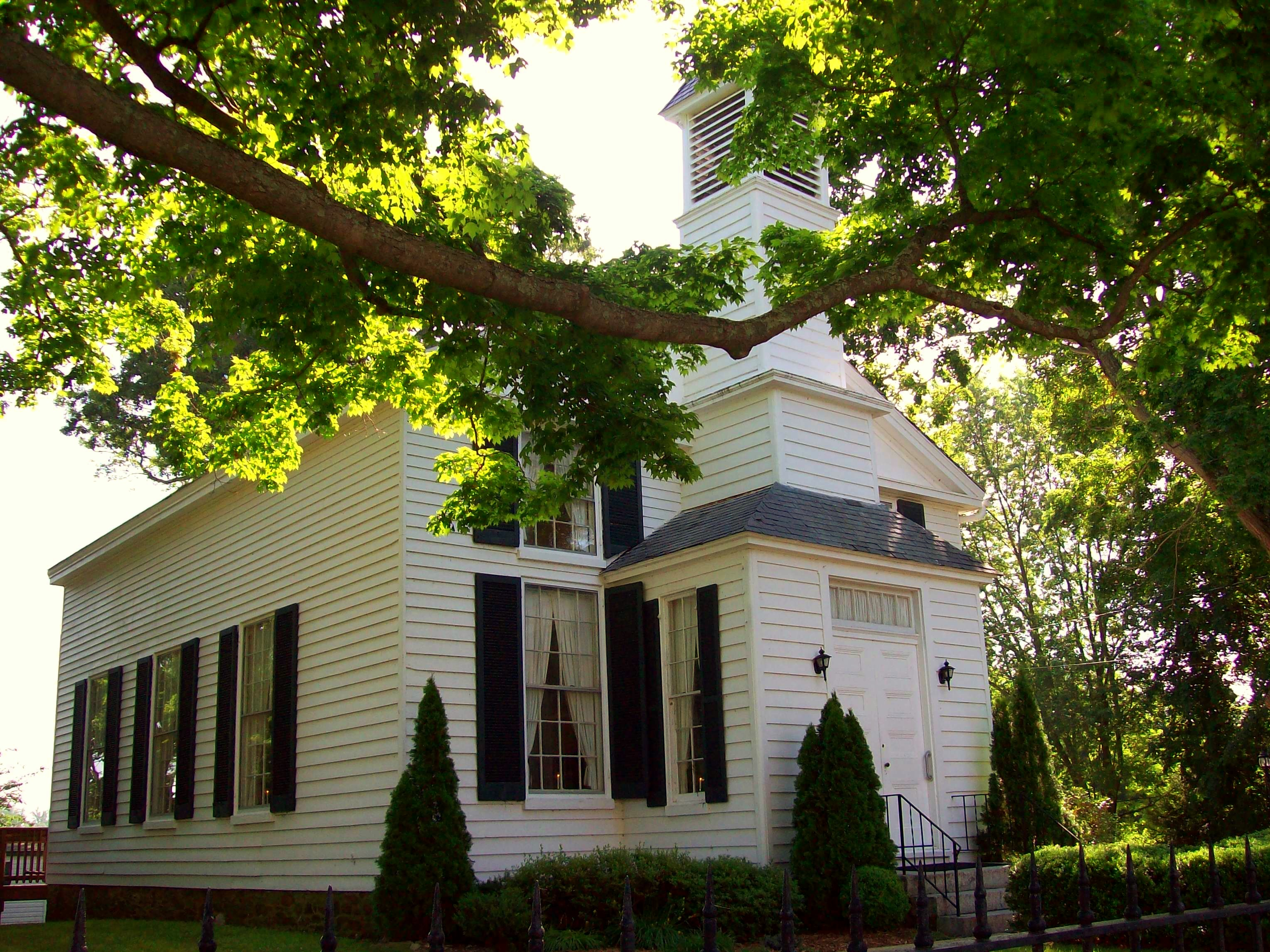 The outside of the church on a summer morning in June 2010.